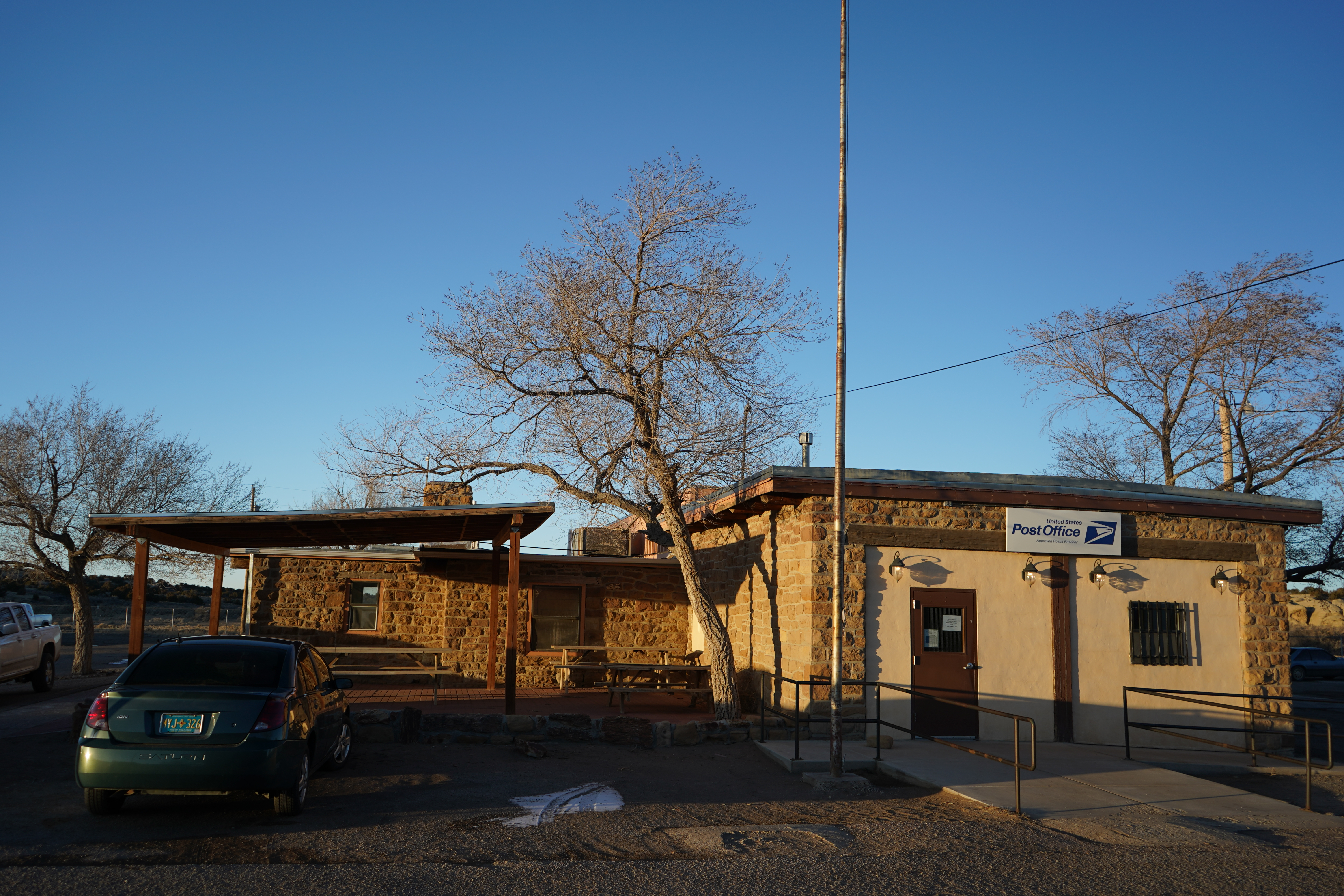 Post Office located as part of Coyote Canyon Trading Post. The trading post is located across the street from the Coyote Canyon Chapter House of the Navajo Nation. It also lies within Brimhall Nizhoni, New Mexico. The Coyote Canyon Café is also located within a few tens of meters to the south. Photograph was taken on 2019-02-12T00:26:25Z.